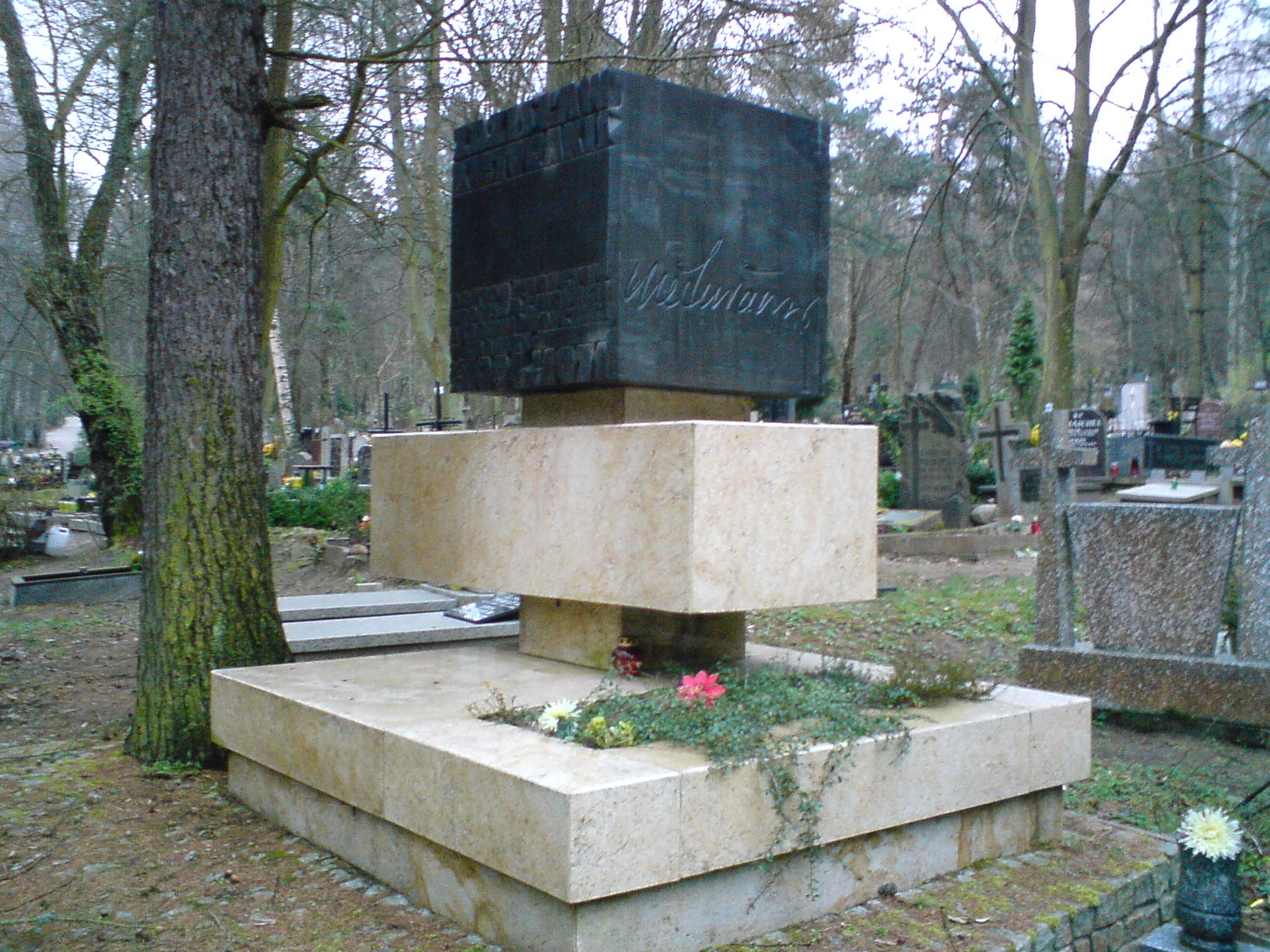 Grave of prof. Zdzislaw Kieturakis on Srebrzysko Cemetery in Gdansk, Poland.